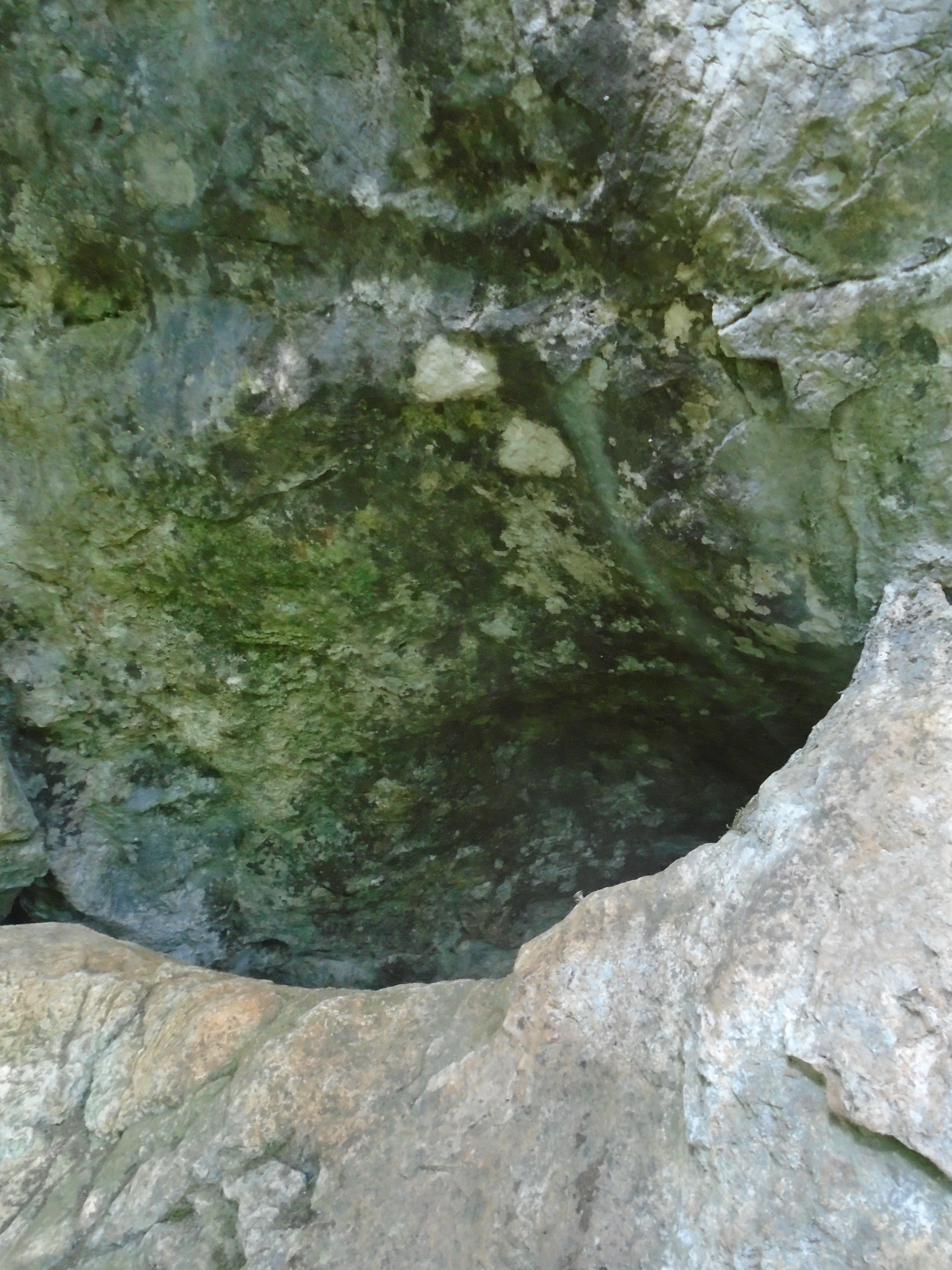 Entrance of Káposztás-kerti No 1 Cave.